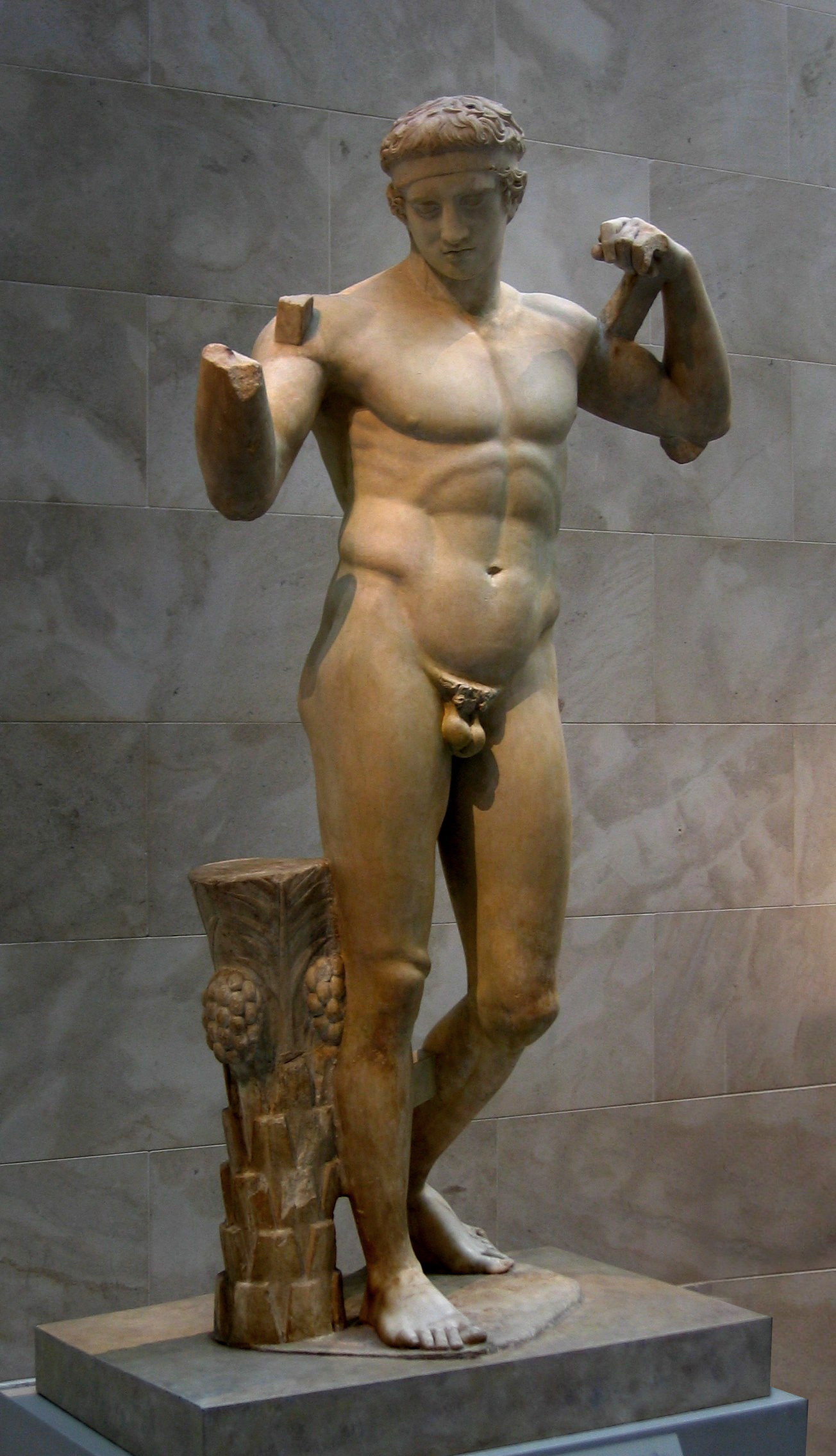 Statue of Diadumenos (athlet tying the fillet of victory around his head), Roman copy (c. 69–96 A.D.) of a Greek bronze statue by Polykleitos, c. 430 B.C., marble (Pentelic). H. 73 in. (185.42 cm). Metropolitan Museum of Art of New York, Department of Greek antiquities, room 6, accession number 25.78.56. See page on the MET site.